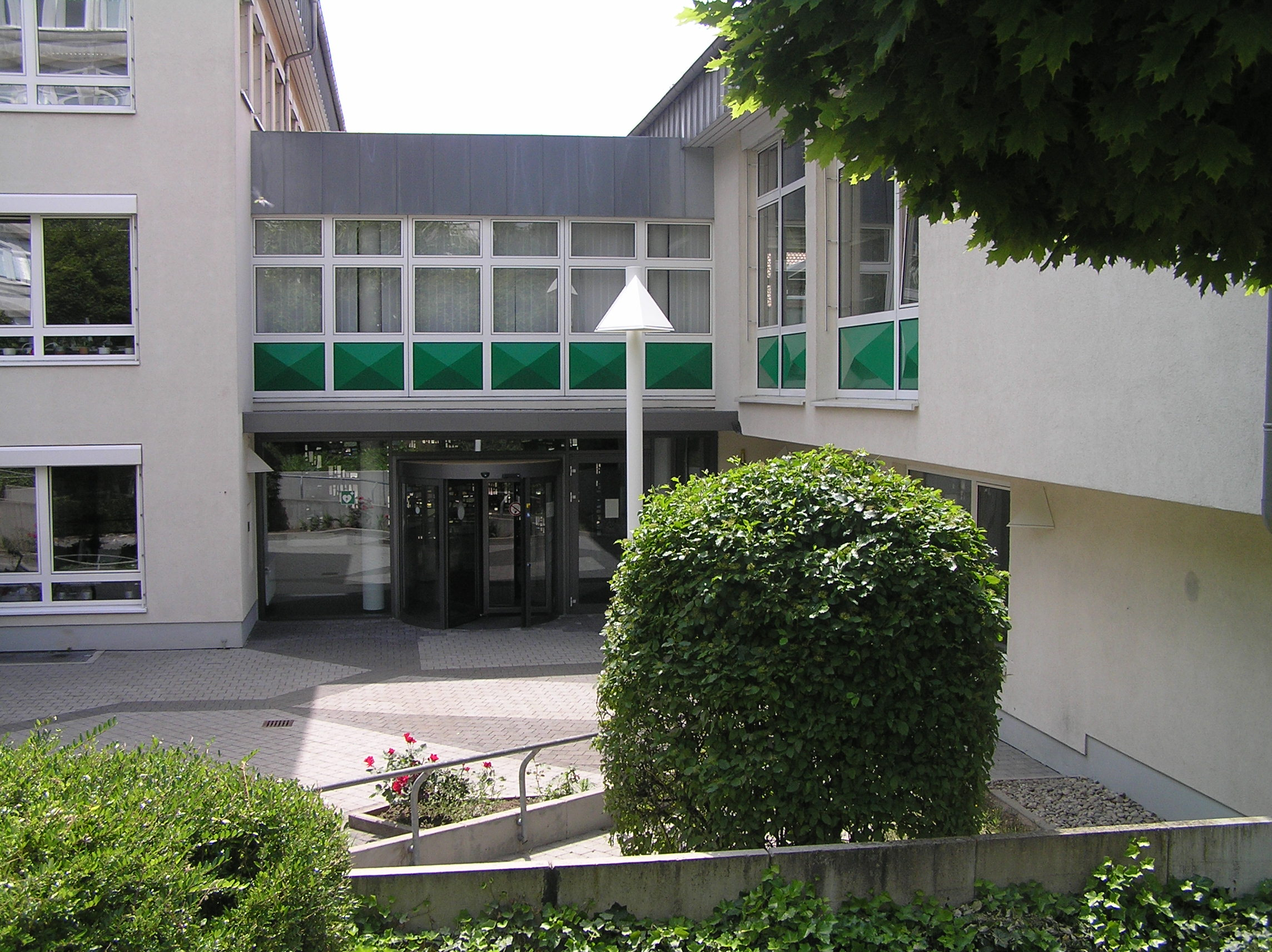 Courthouse in Bad Homburg vor der Höhe, Hesse, Germany